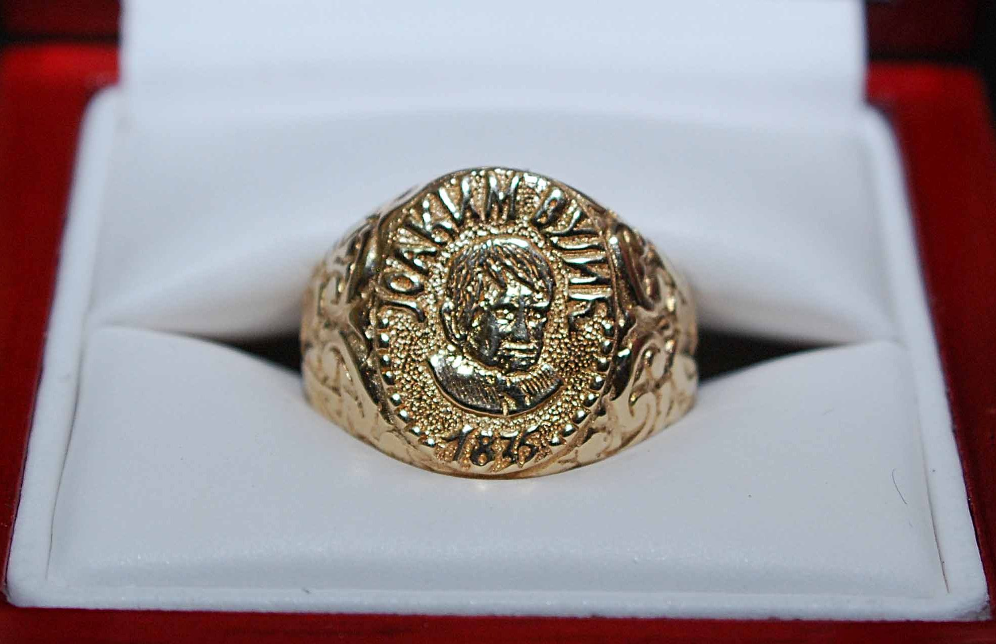 Photo of The Ring with figure of Joakim Vujic